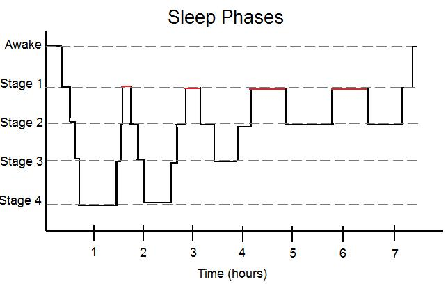 Graph showing the passage through the four principle phases of sleep over the course of a night. Portions marked in red indicate REM sleep.